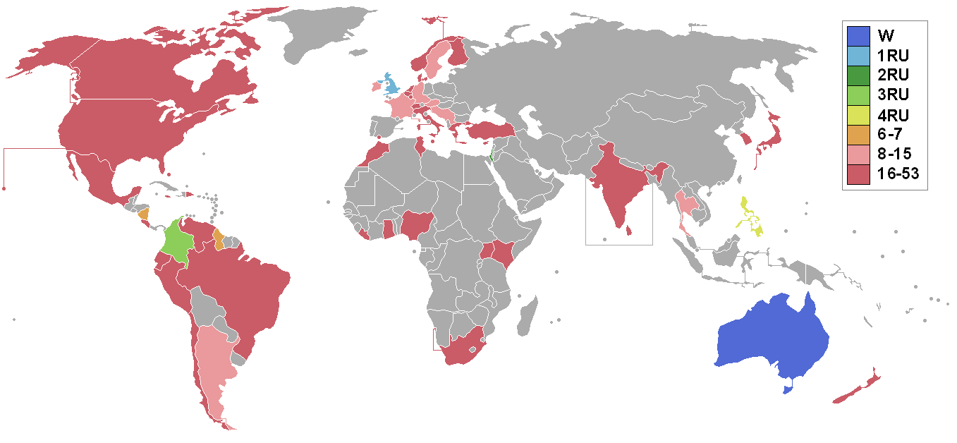 ms world 1968 results map